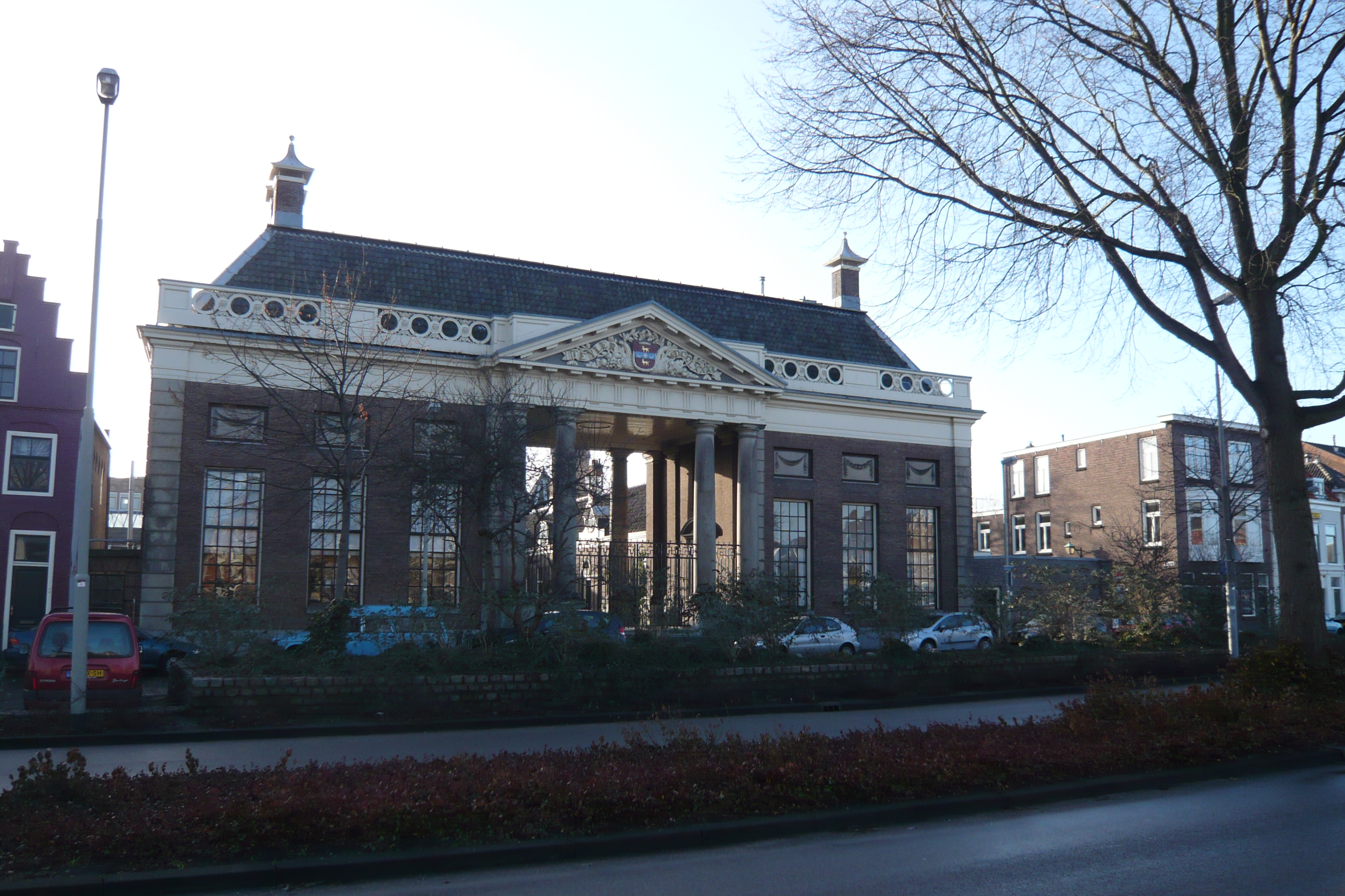 Front of Teylers Hofje showing the imposing gate flanked by the regents' rooms. Behind the gate around the courtyard are the tiny houses for the pensioners.